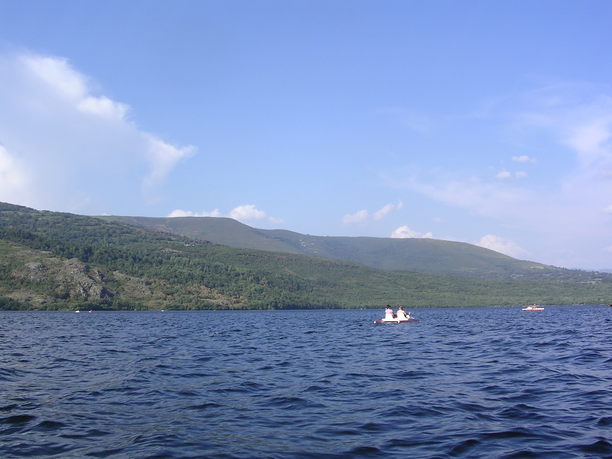 This photo was taken while I was visiting the Sanabria lake (original: "Lago de Sanabria").